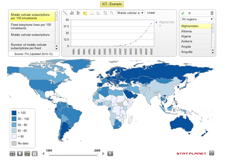 Statsilk World Thematic Map screenshot of online application based on custom data (also directly copy&paste from wikipedia table) Exported maps & charts are licensed under a CC BY 3.0 license.